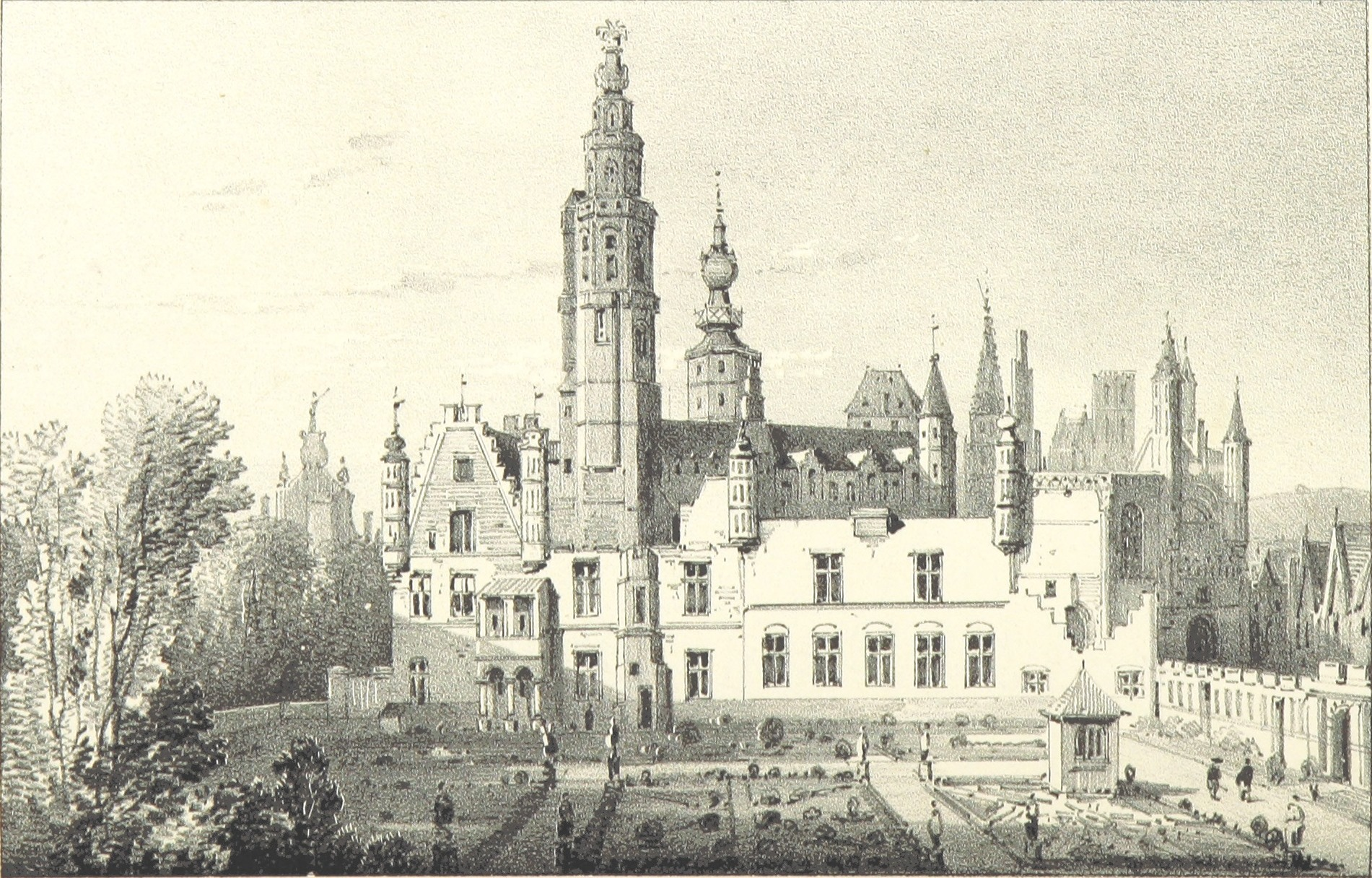 Nassau Palace in Brussels. Lithograph by Pierre Degobert, printed in Alexandre HENNE and Alphonse WAUTERS, Histoire de la ville de Bruxelles (1845)